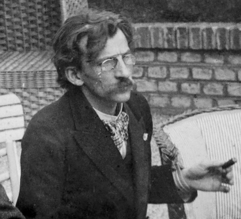 The image of German composer Hans Pfitzner (1869-1949)